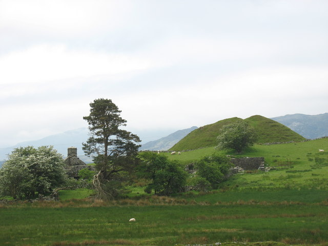 Castell Tomen y Mur Excellent views of the 'tomen' at Tomen-y-mur can viewed on the following link